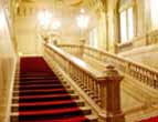 Stairway of Honor Italia in the Casa Rosada